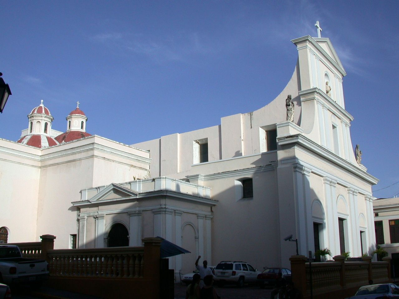 Church in San Juan, Puerto Rico Photography by F. Bucher